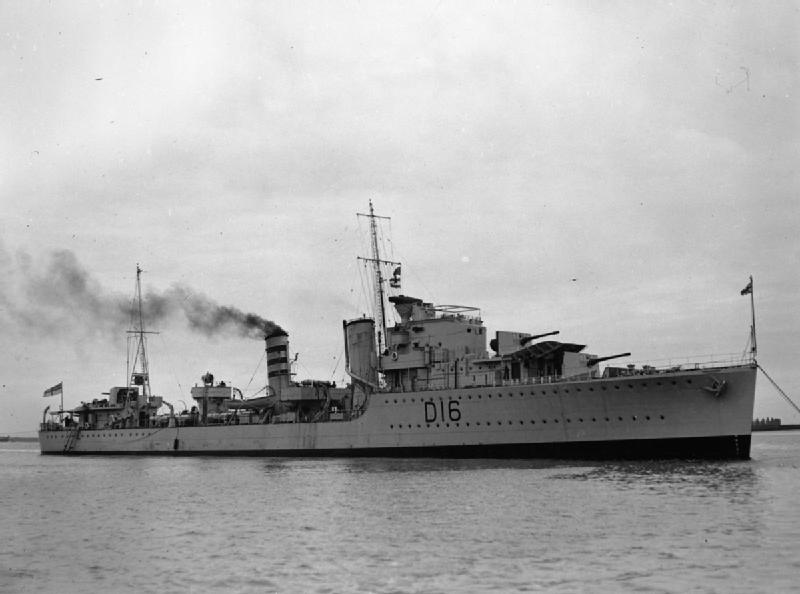 Photograph of British I class destroyer HMS Ivanhoe.